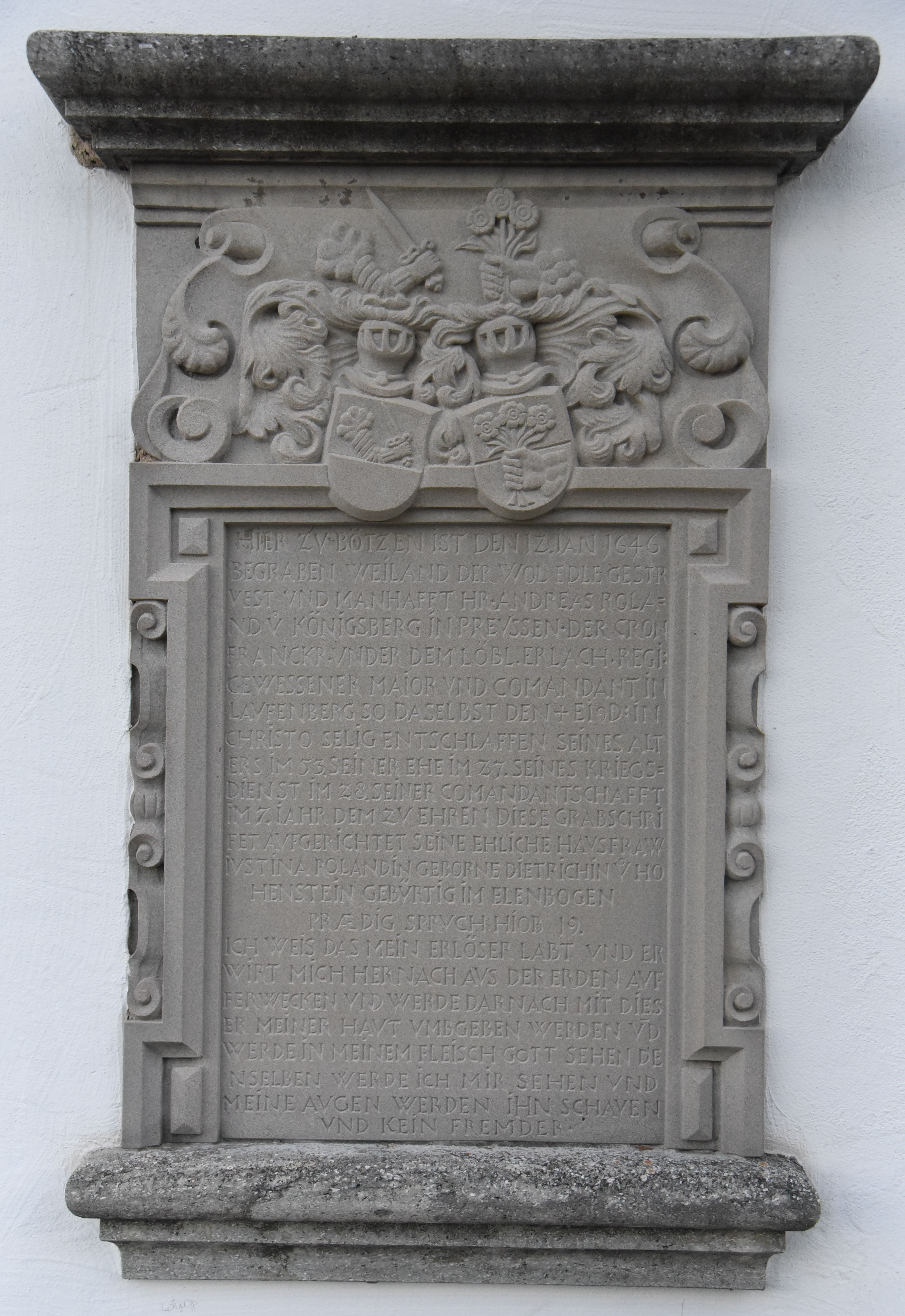 Tombstone of Andreas Roland of Königsberg, at the church of Bözen AG, Switzerland